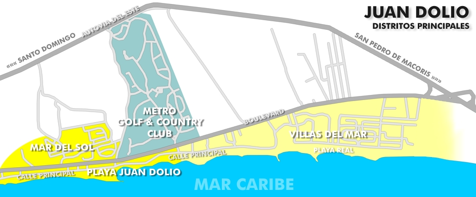 Map indicating the main urban parts of Juan Dolio.